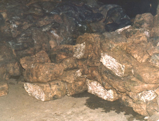 Smallholder's lump at re-milling factory